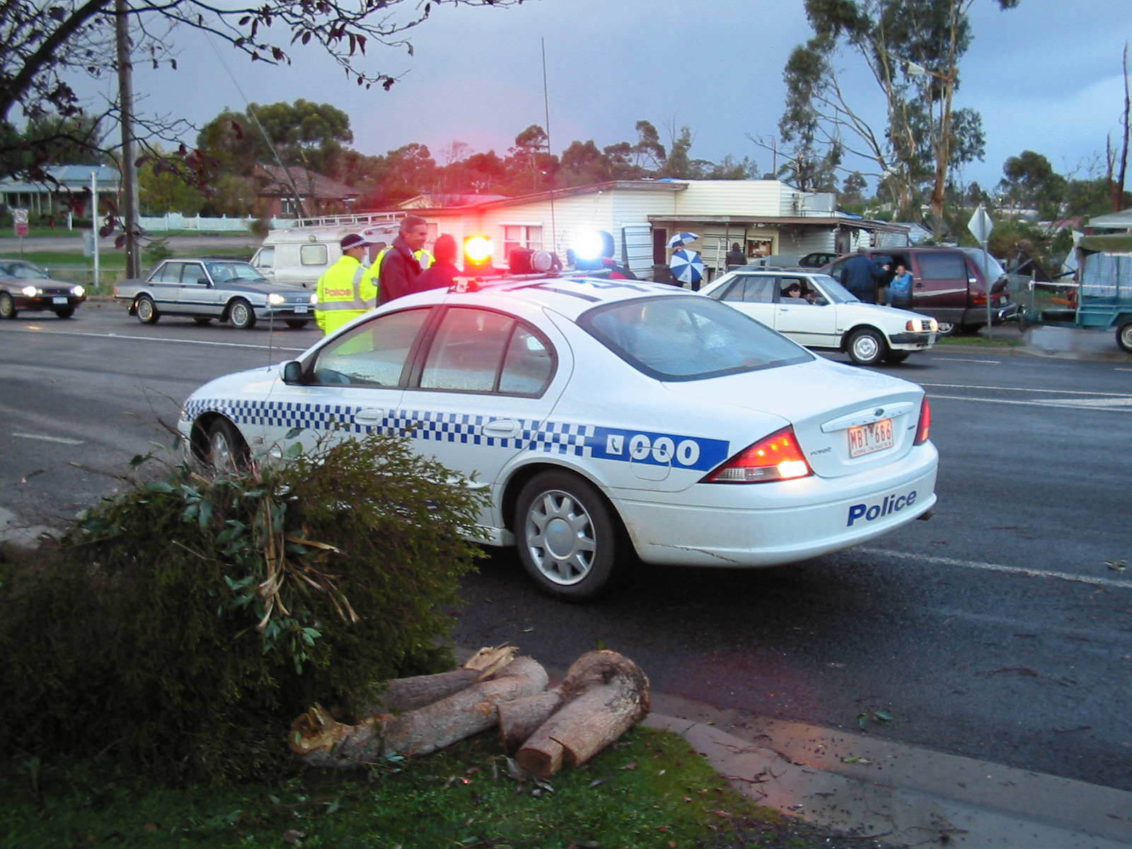 Aftermath of the 2003 Bendigo tornado at Nelson St, California Gully, featuring a 2001–2002 Ford AU III Falcon Forte sedan (Victoria Police).